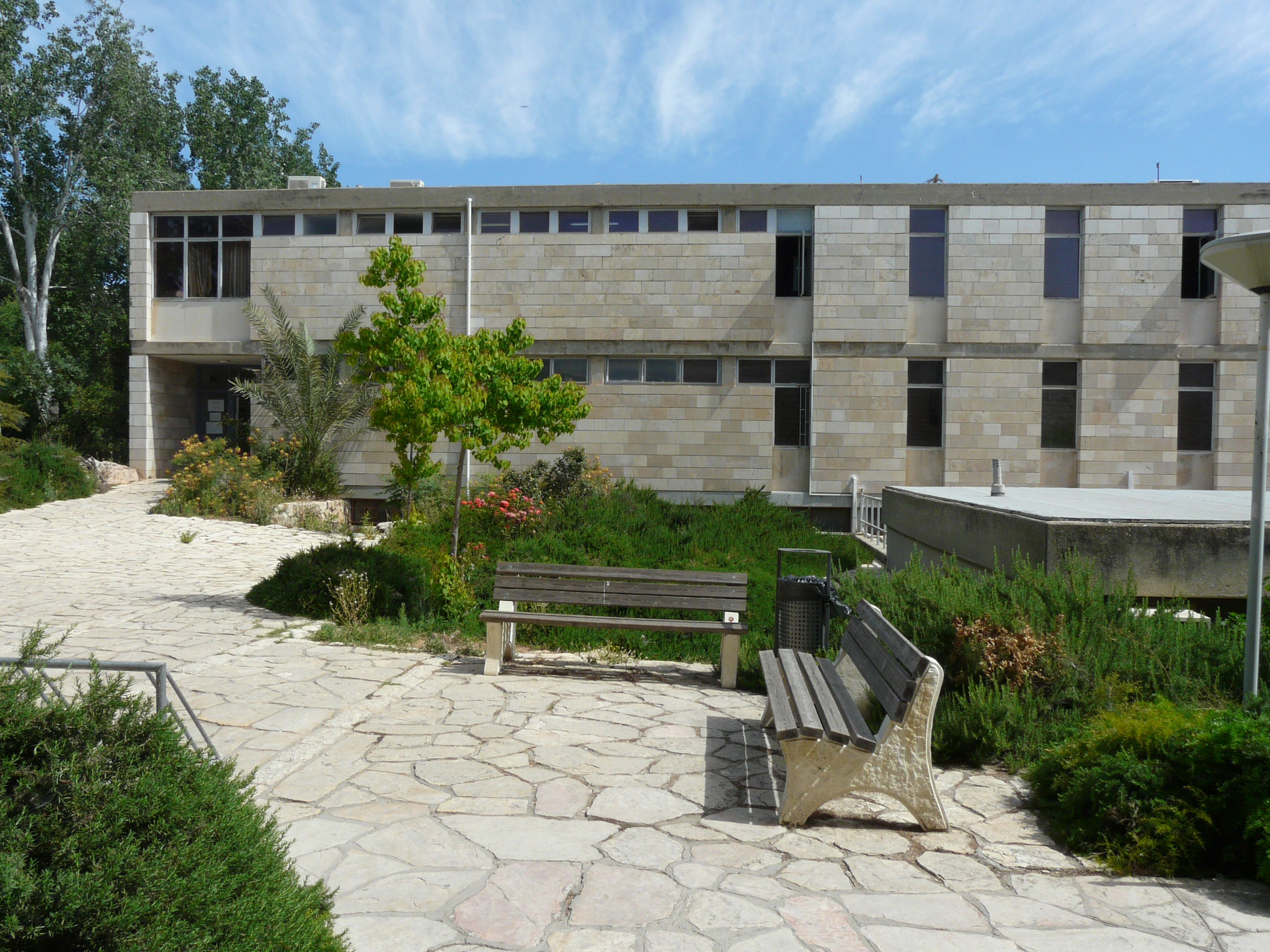 Kaplun building in the Givat Ram campus of the Hebrew University, Jerusalem, where the Racah Institute of Physics is located